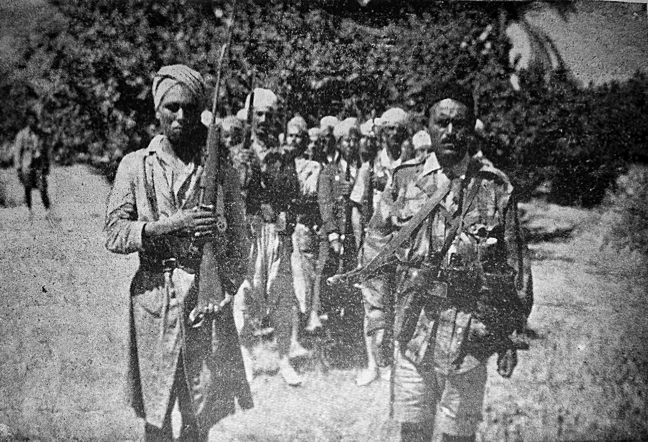 Sada Zitouna, a Tunisian Newspaper, appeared 1954, on which we see Lazhar Chrati, a National Resistant